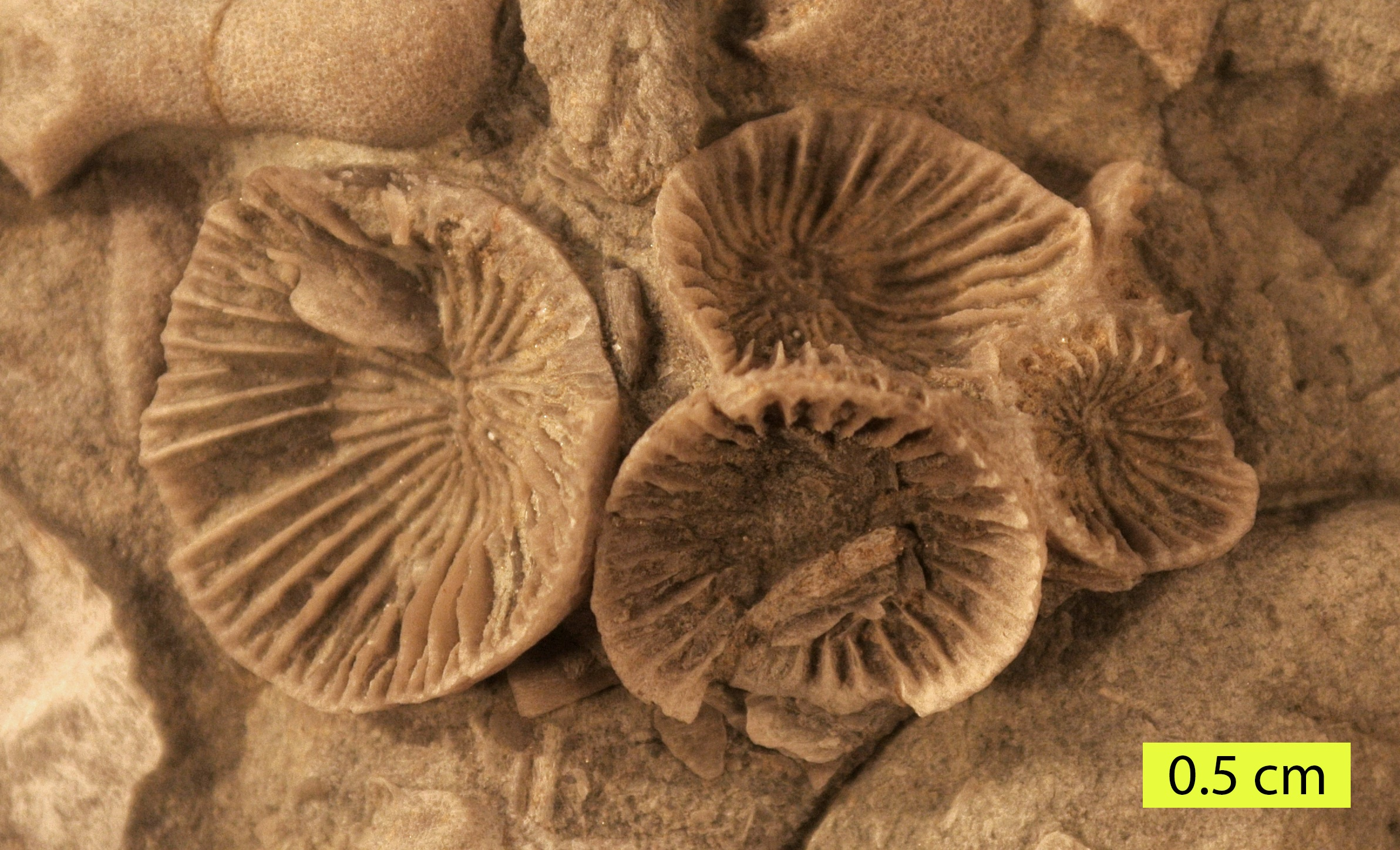 Streptelasma divaricans (Nicholson, 1875). A rugose coral from the Liberty Formation (Upper Ordovician) exposed at Caesar Creek State Park, southern Ohio. Specimen found by Willy Nelson.